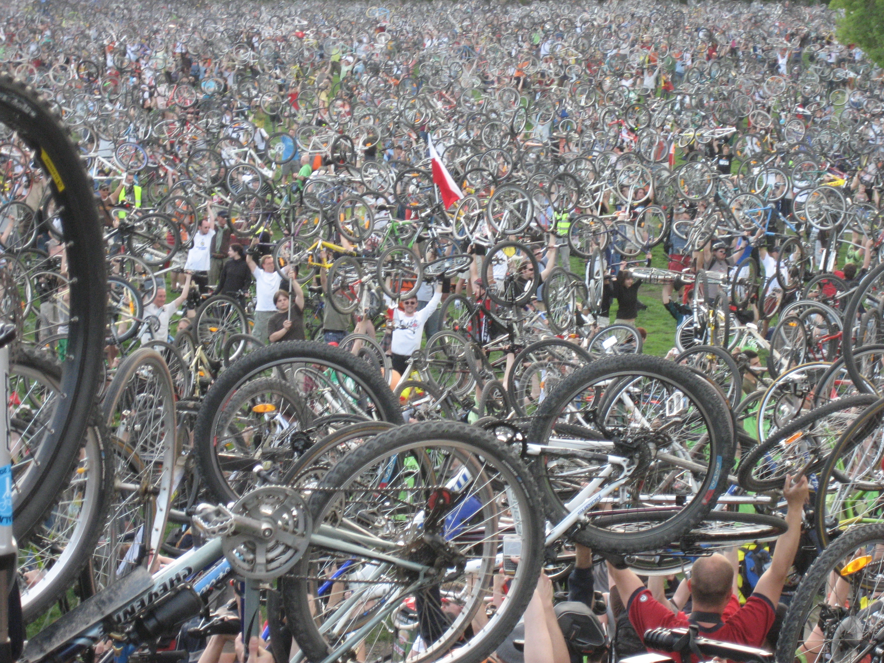 Critical Mass in Budapest, April 19, 2009